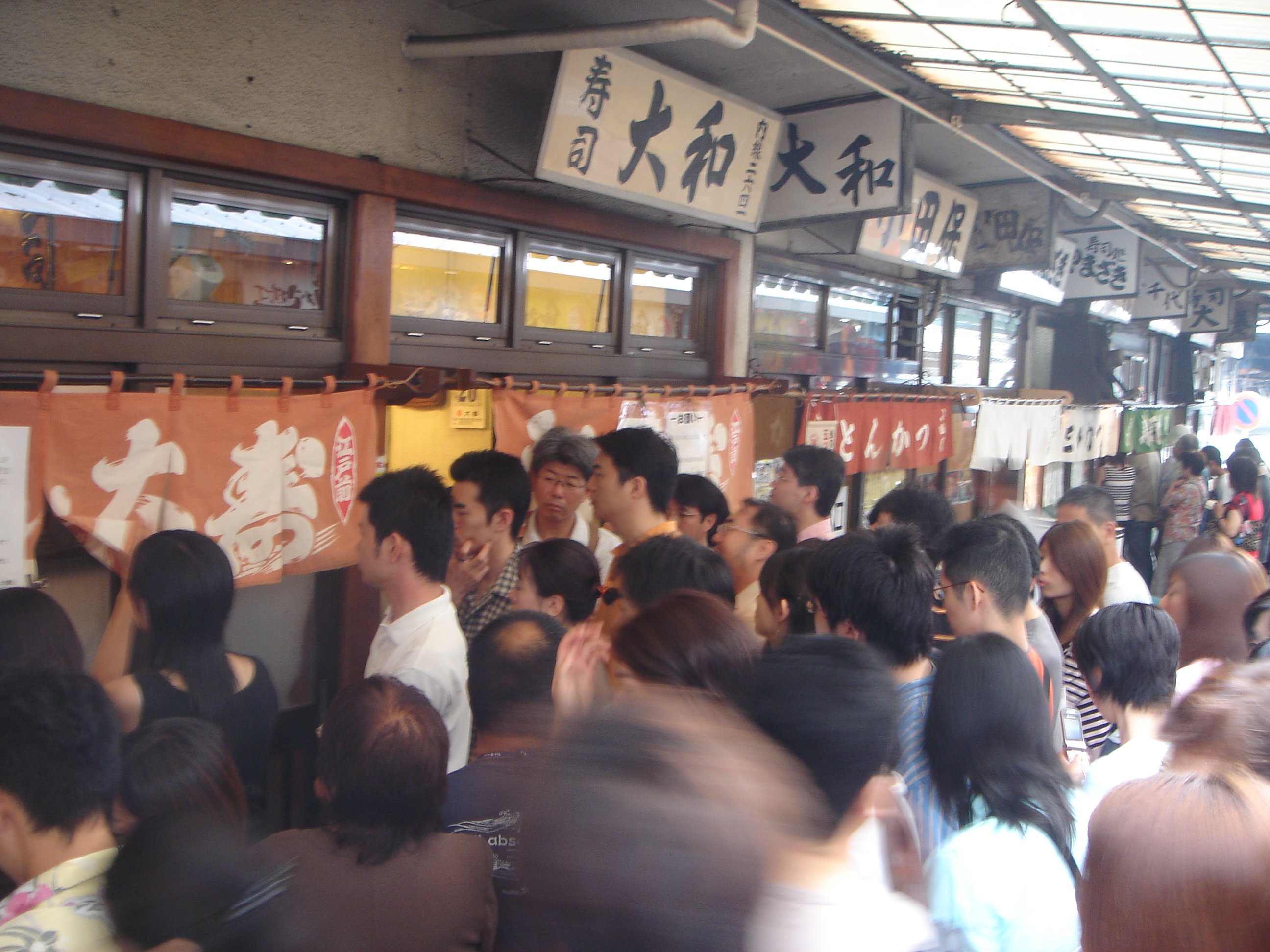 6 layers of queues, 1 hour of wait...